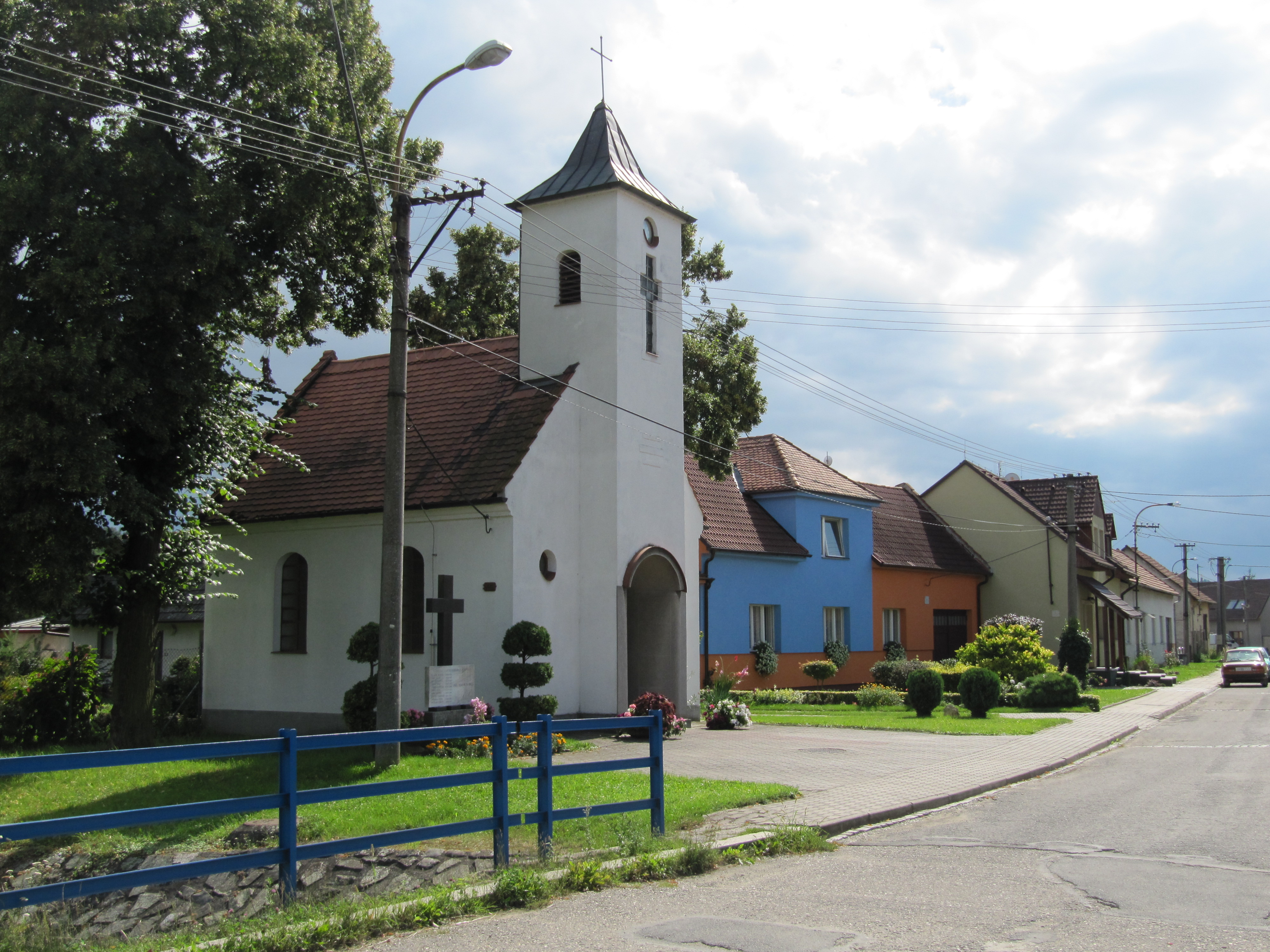 Bílovice in Uherské Hradiště District,part Včelary, Czech Republic.Chapel.